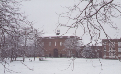 Manchester Grammar School Main_Building in Snow